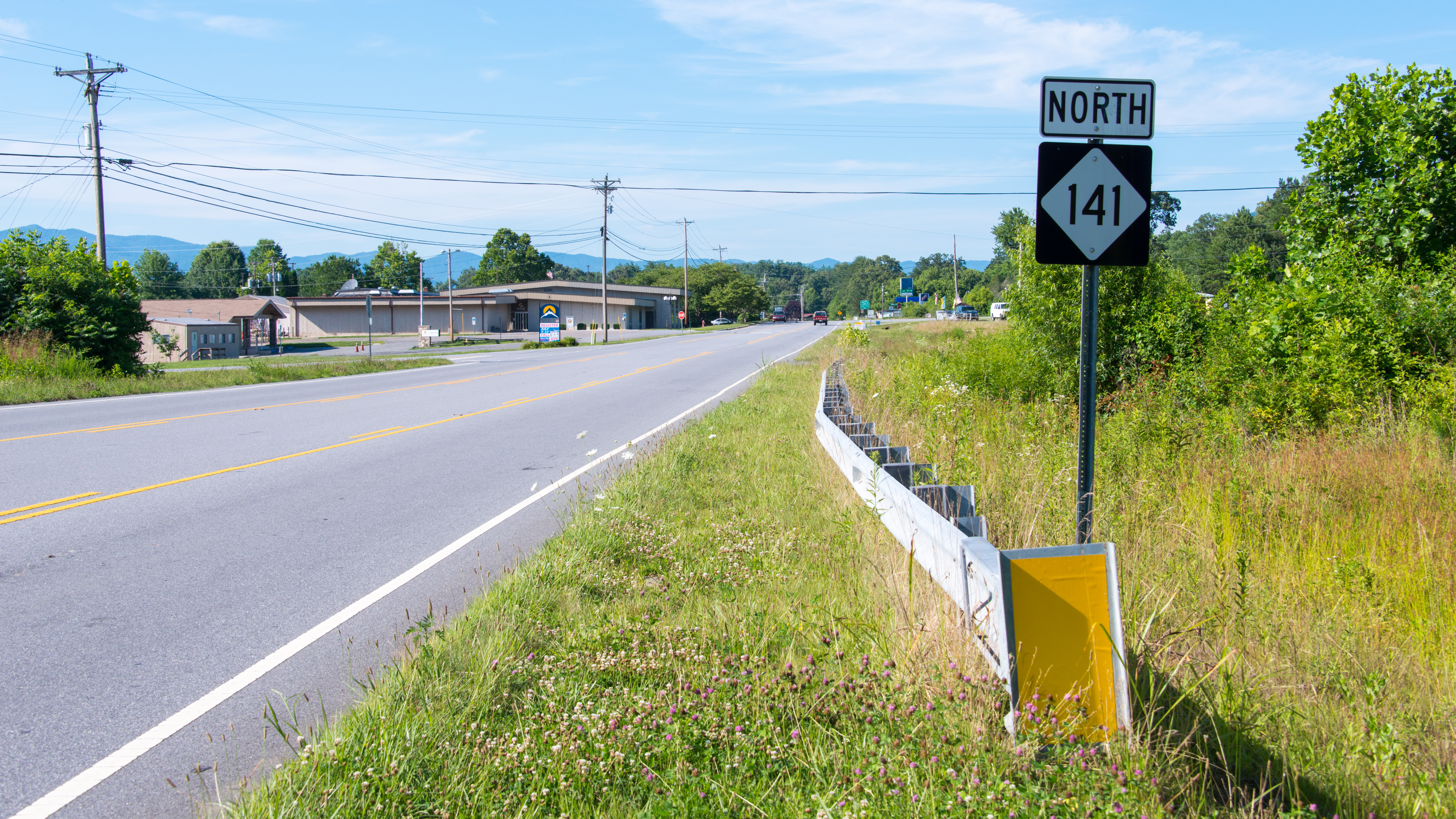 First sign of northbound North Carolina Highway 141, near Peachtree and Murphy.